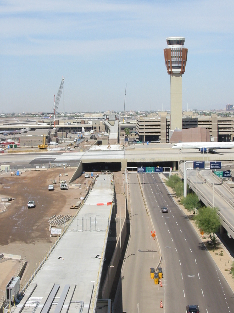 Sky Train construction, viewed from Terminal 4 to T3. The concrete guideway, which dives under taxiways S and T, is largely complete. The steel skeleton of the T3 station rises in the background. Photo taken May, 2013.